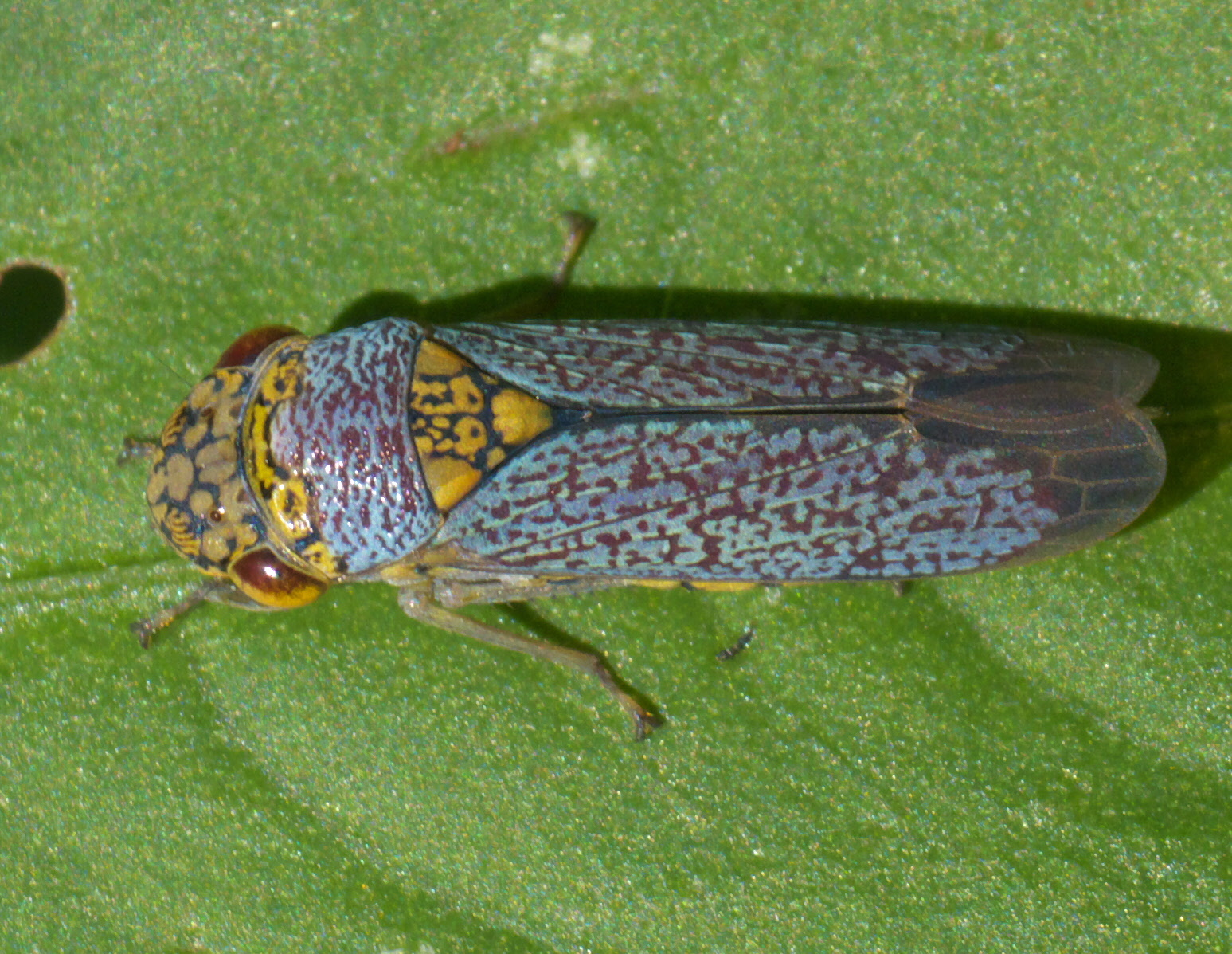 Oncometopia orbona, Broad-headed Sharpshooter, ID Confidence: 93